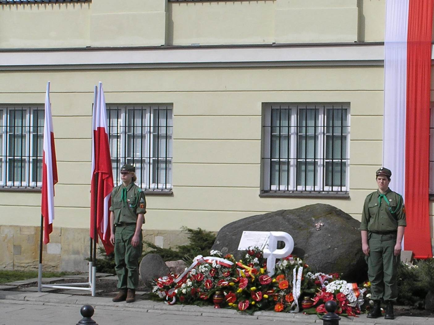 Polish Boy Scouts honour guard at the Operation Arsenal monument in Warsaw during 2009 celebrations of the anniversary of the 1943 event